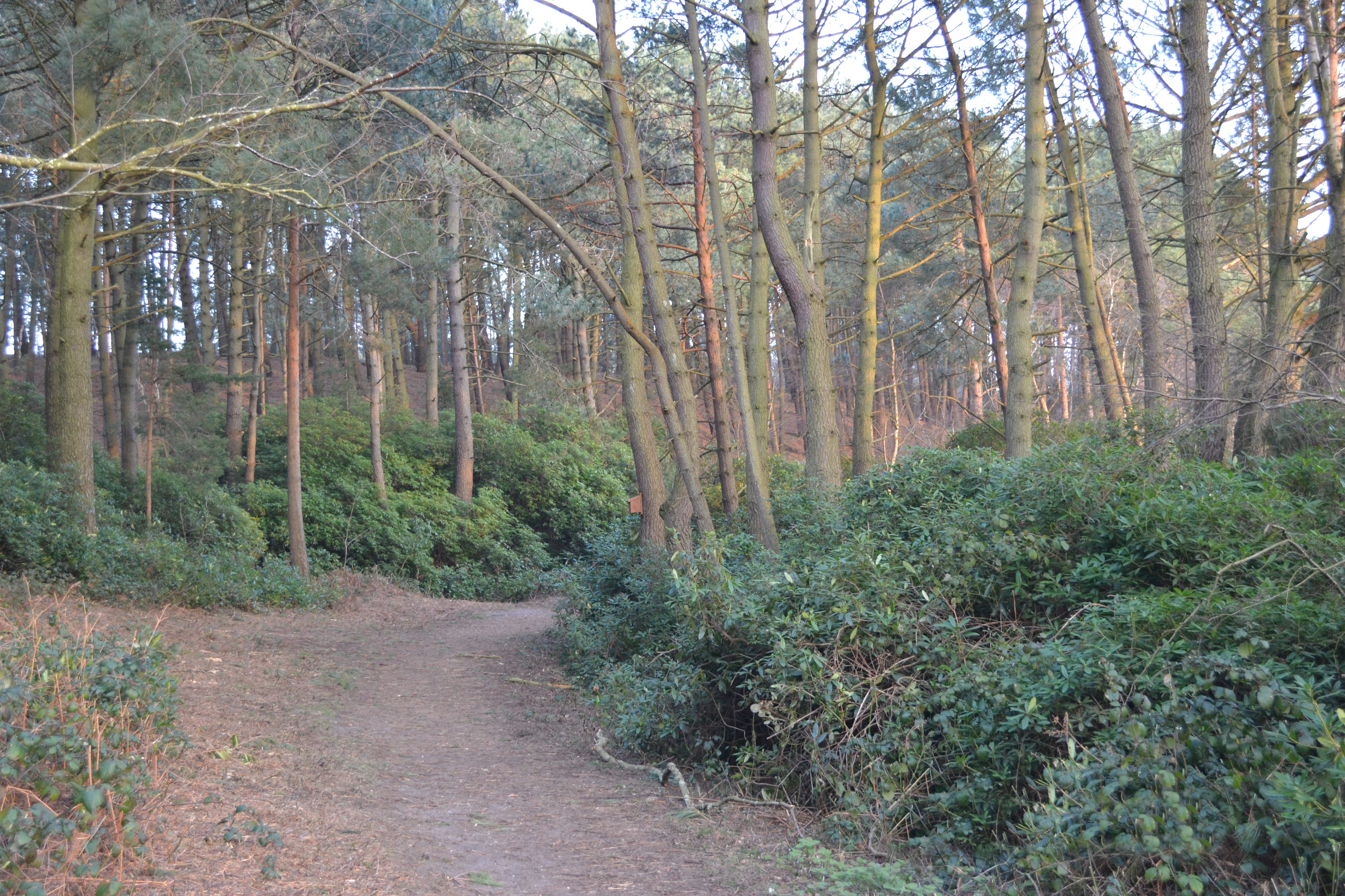 Invasive Pine and Rhodedendron on the western slopes of St Catherine's Hill in the Borough of Christchurch, Dorset.